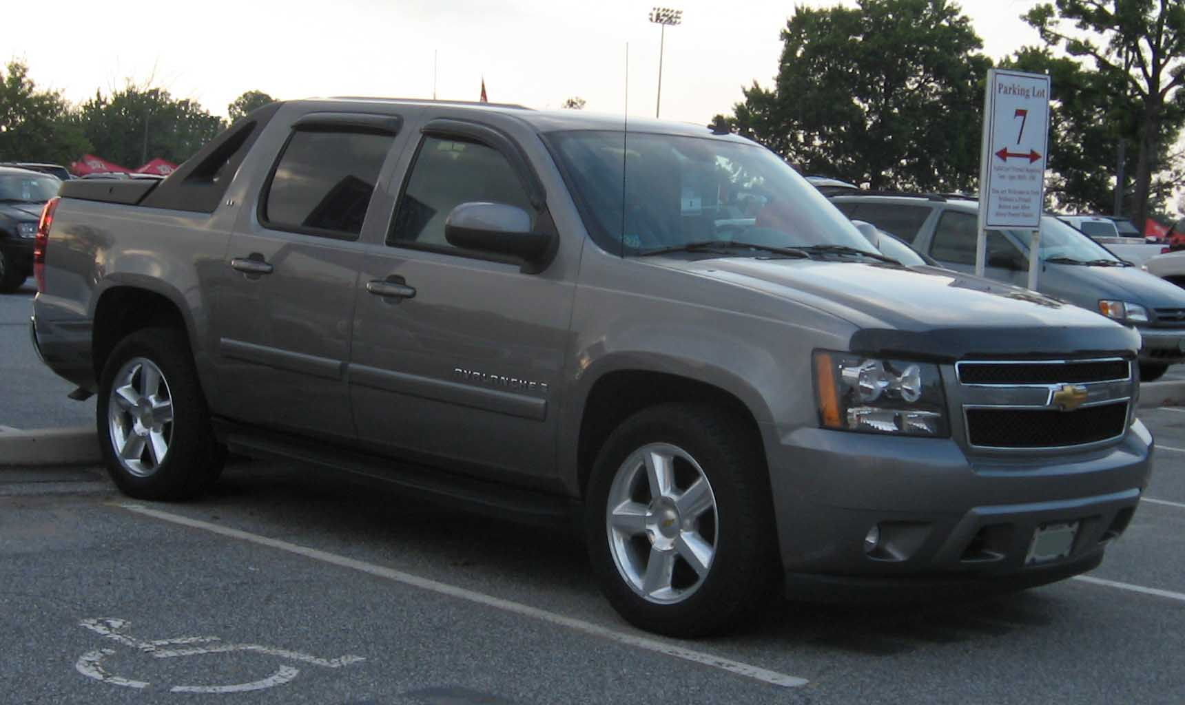 2007-2008 Chevrolet Avalanche photographed in College Park, Maryland, USA.